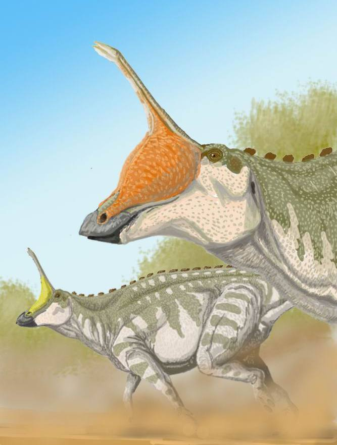 Tsintaosaurus. Artist's impression. Hadrosaurs.